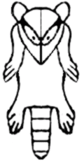 Raccoon as depicted in artifact found at Spiro Mounds, in Oklahoma. Graphic created by Aaron Walden, and based on pre-Columbian original.